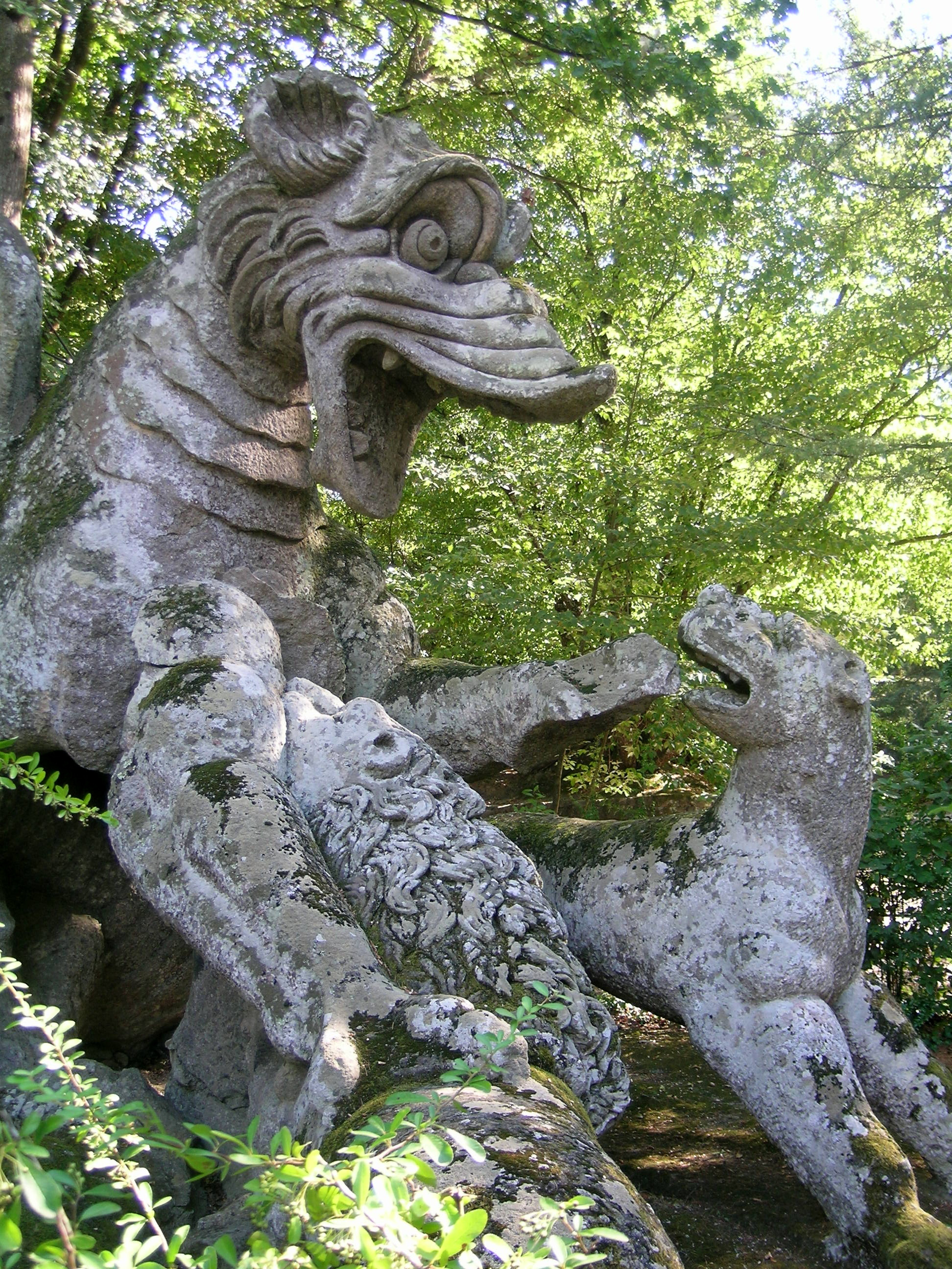 dragon with lions at the park of monsters, close to Bomarzo (Italy)